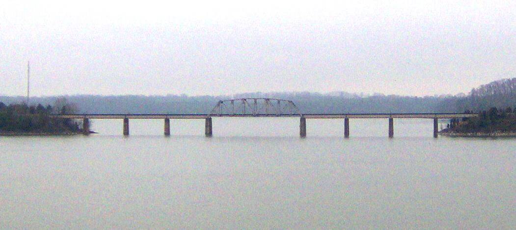 Looking north from US-411 bridge over the Little Tennessee River in Vonore, Tennessee, in the southeastern United States. The now-submerged site of Rose Island is located just beyond the railroad bridge. The associated site of Mialoquo was located beyond the ridge on the left.